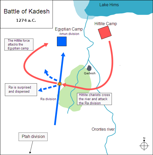 Battle of Qadesh - First Phase (English)